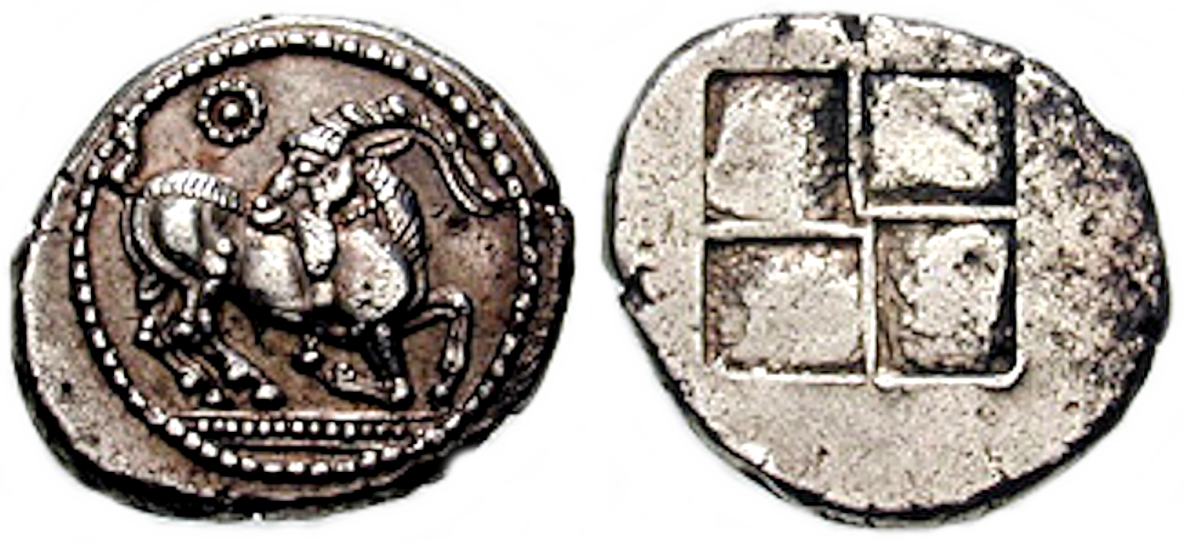 MACEDON, Aegae. Circa 500-480 BC